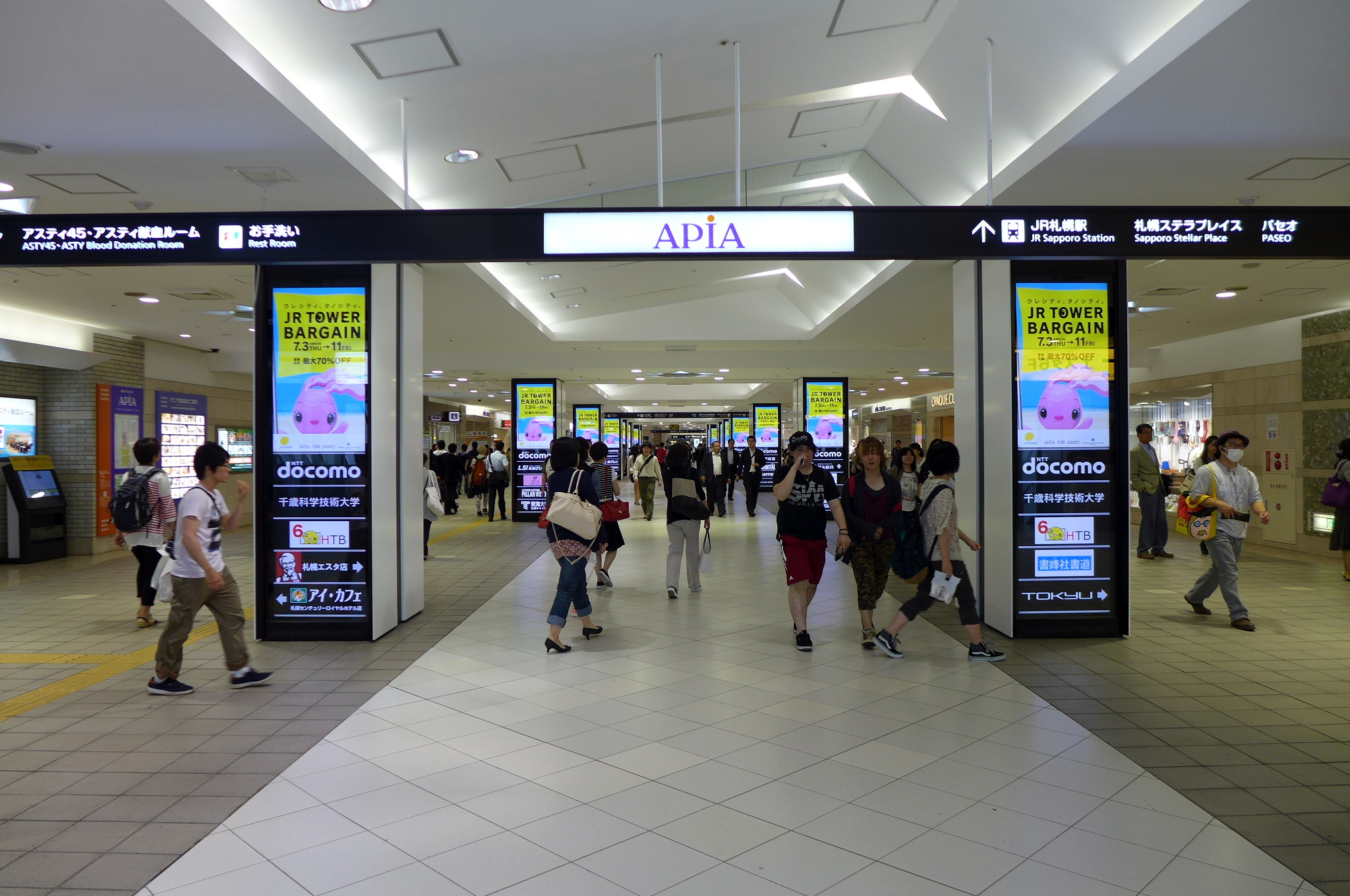 APIA Main access to JR Sapporo station